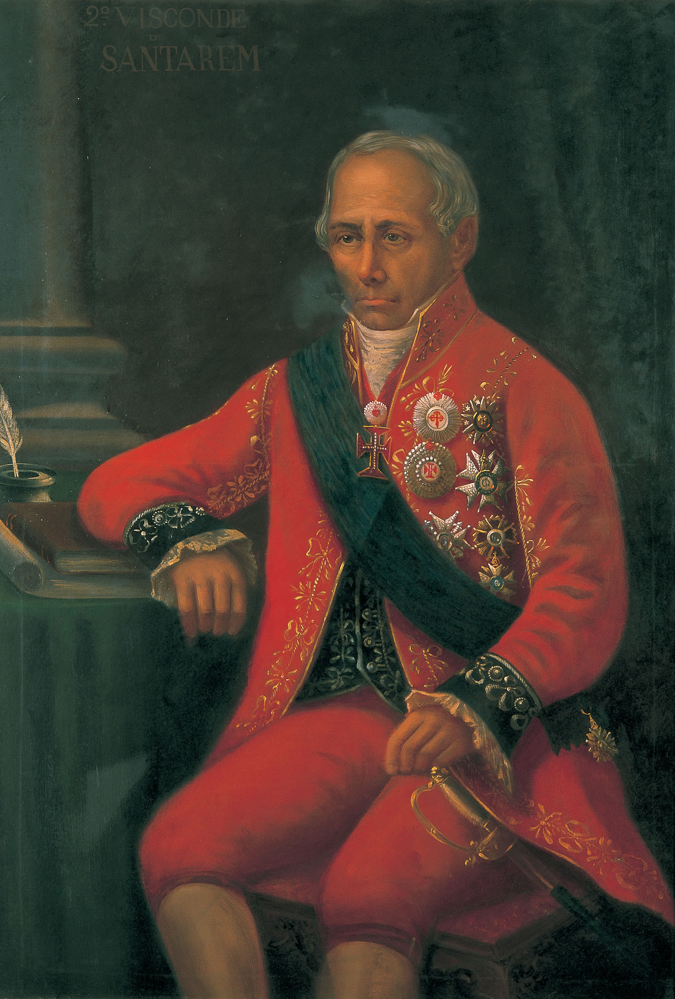 Portrait of Manuel Francisco de Barros e Sousa da Mesquita de Macedo de Leitão e Carvalhosa (1791-1856), 2nd Viscount of Santarém. The portrait is currently at the Lisbon Geographic Society.